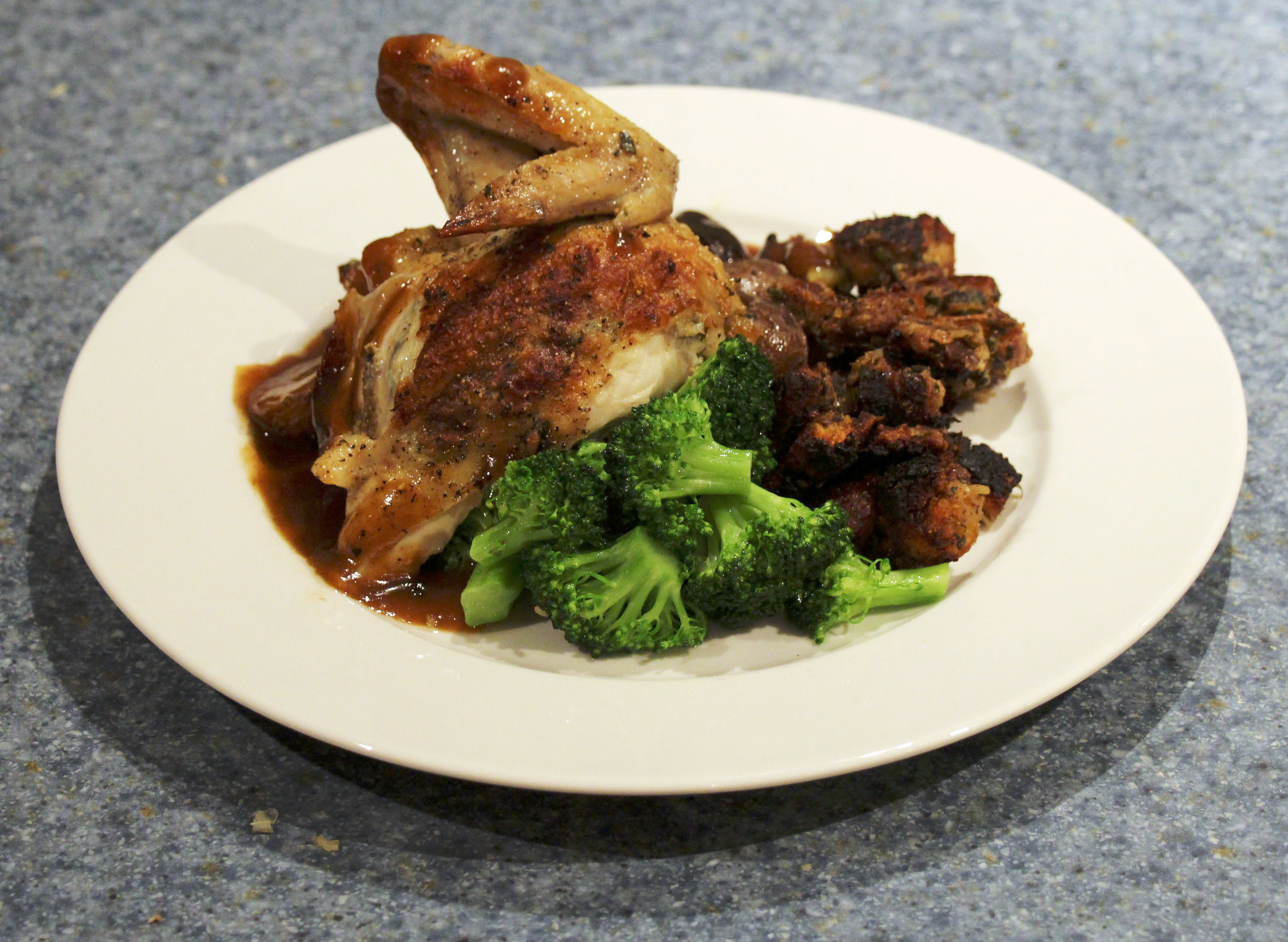 Roasted Chicken Dinner Plate, Broccoli, Stuffing, Potatoes, Demi Glace. Photo taken in Toronto, Ontario, Canada.